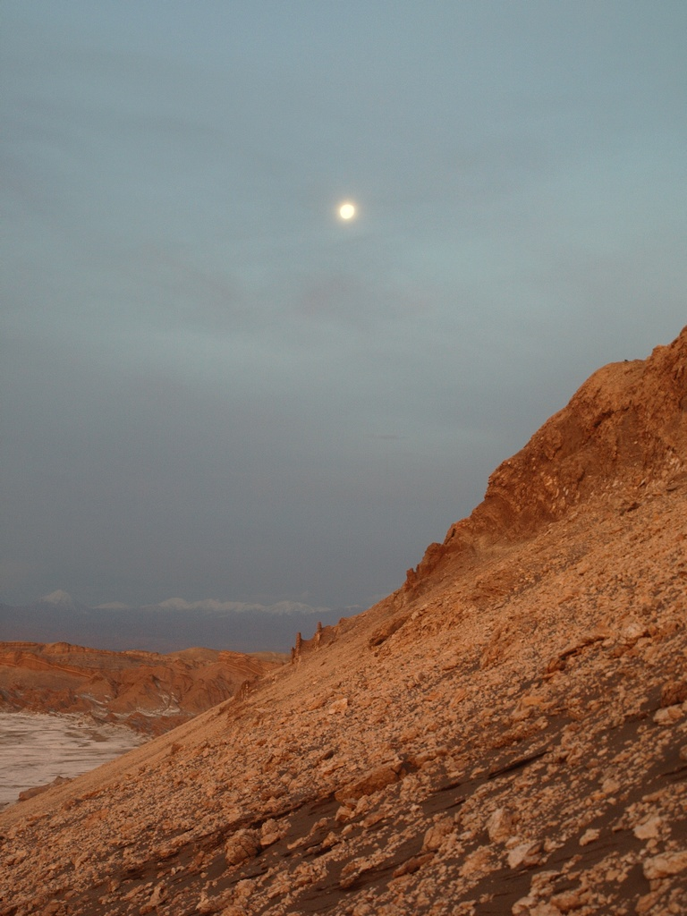 A shot in the Moon Valley, Atacama Region (Chile) in the evening.